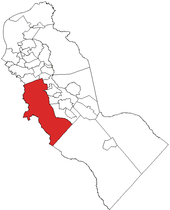 Map of Camden County highlighting Gloucester Township